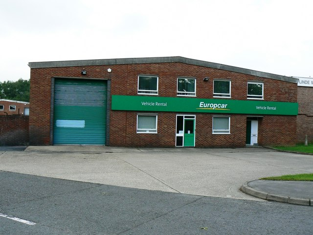 Europcar - Onslow Close